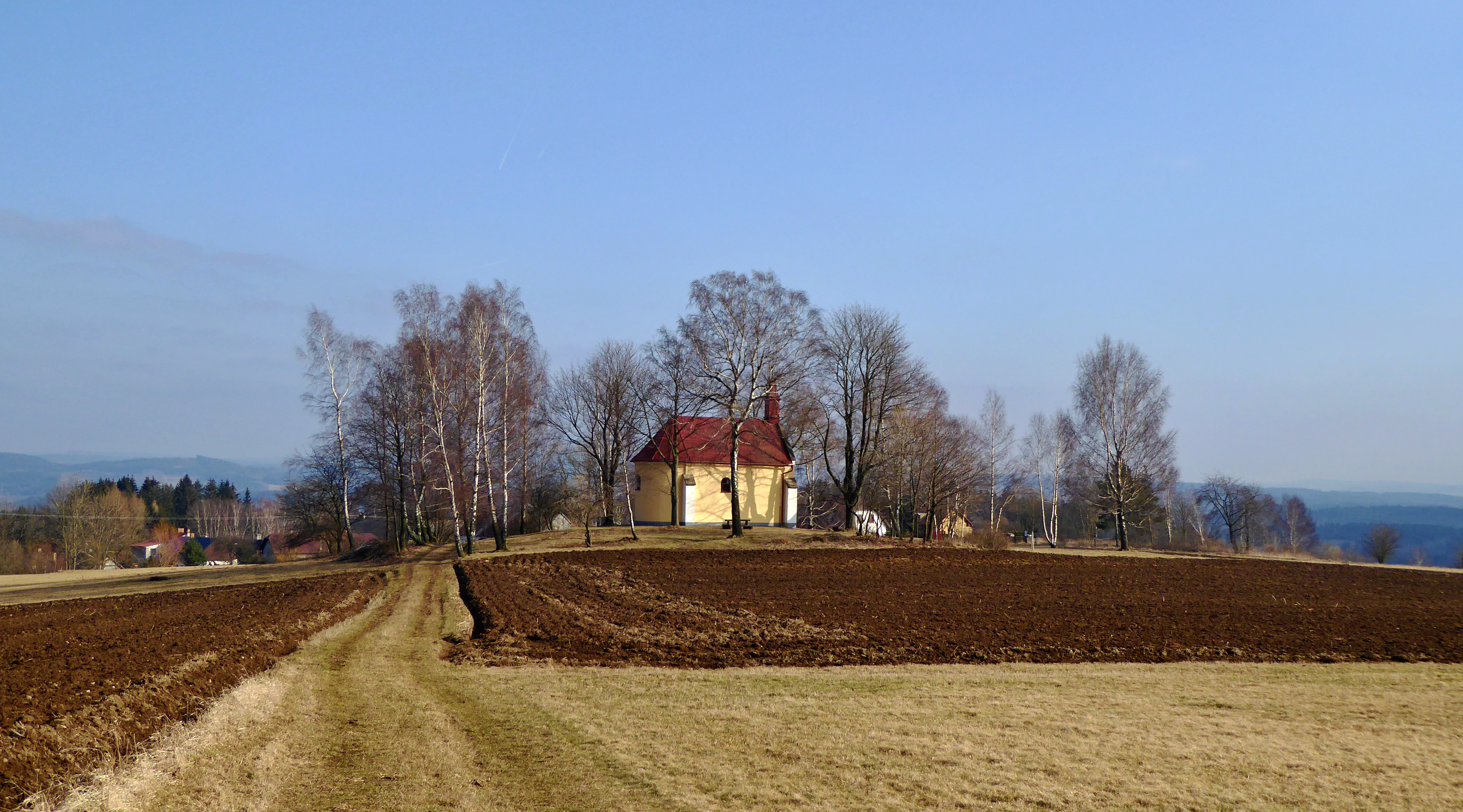 The top part of the Zuberský hill (650.5 m above sea level) in the landscape of the Iron Mountains. At knoll the original Baroque chapel of St. Jana Nepomucký, cultural monument, in 2017 refurbishment of the facade. Built in the early 18th century above the small hamlet of "Zubří" (part of small town of Trhová Kamenice). The locality with meadows and cultivated fields is an observation point in the Protected Landscape Area of Iron Mountains. In the outlook is also the part of the nature reserve "Zubří" and the top Vestec (668 m above sea level), the highest in the protected landscape area (not on the photo). The field road leads from the small hamlet of "Zubří" through the top "Zuberský" hill and forest site to the road "Trhová Kamenice - Hluboká". Photo location: Czechia, Pardubice Region, the small town Trhová Kamenice, the landscape area "Kameničská" Highlands (geomorphological district), azimuth 143°.